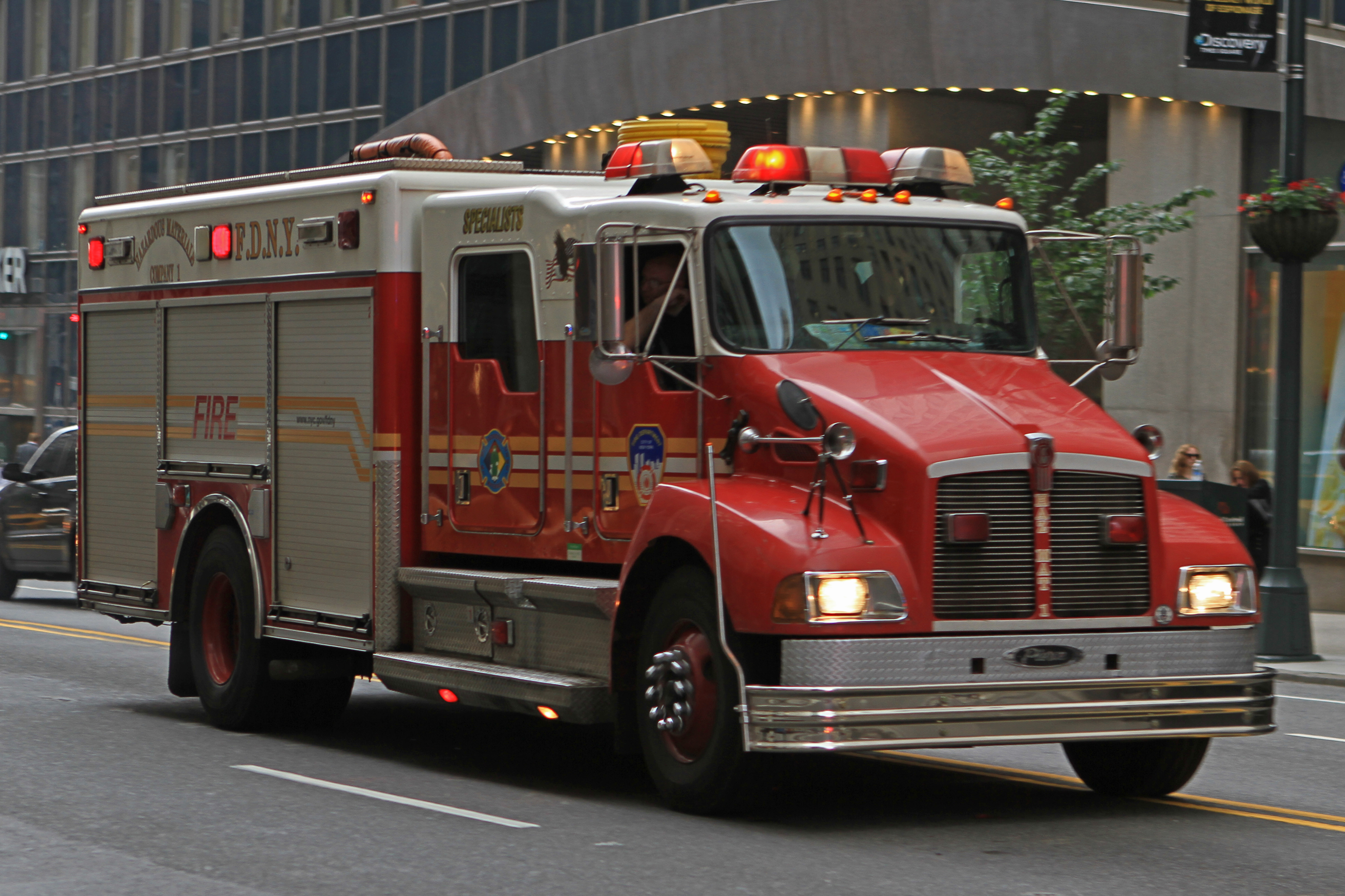 FDNY - Hazardous Materials Company 1 (HazMat 1)